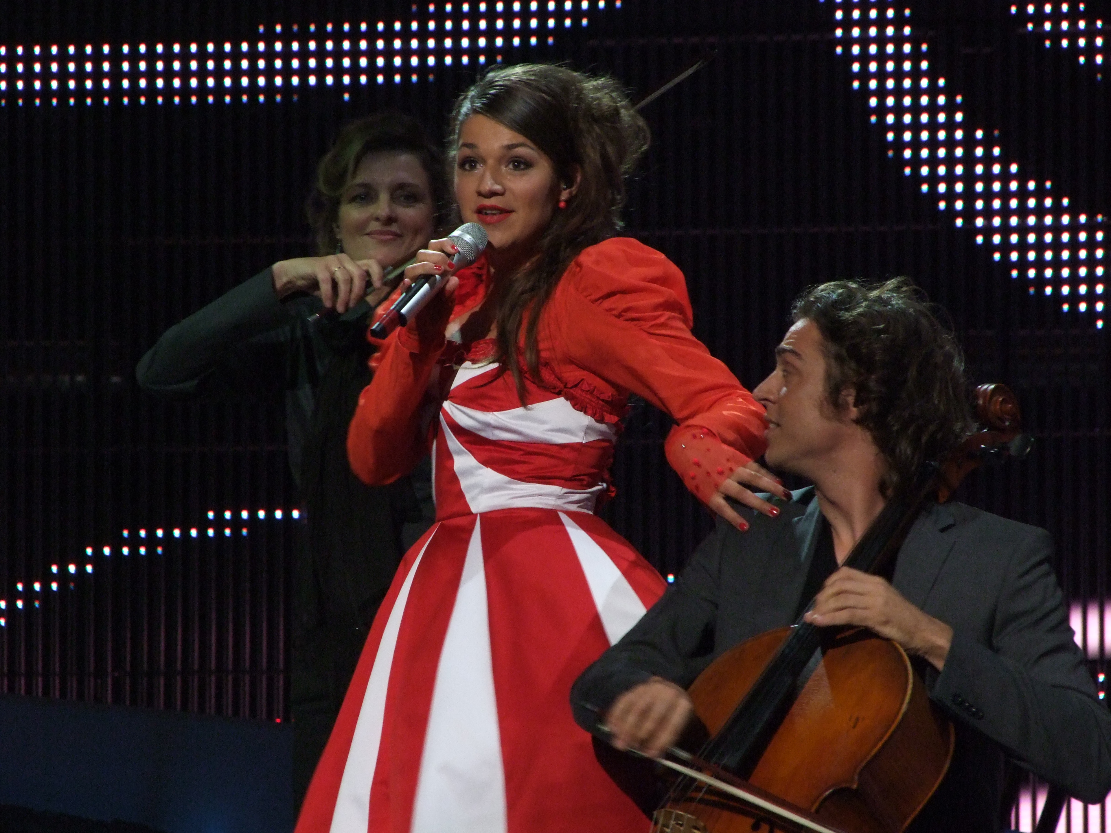 Ishtar at first semi-final, Eurovision Song Contest 2008 in Belgrade, Serbia, May 20, 2008.